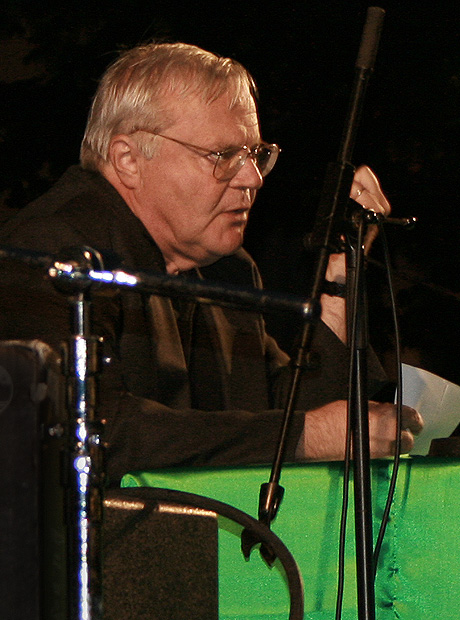 Austrian literary critic and linguist Wendelin Schmidt-Dengler at the opening of the literary festival O-Töne (MuseumsQuartier, Vienna)